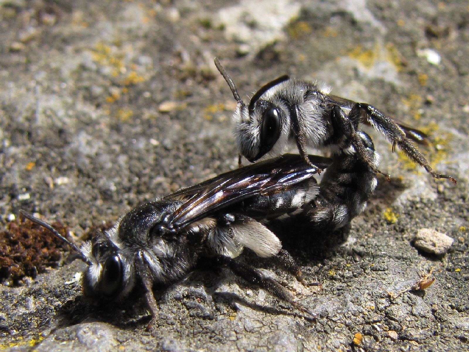 Mating Andrena agilissima spotted on Burg Pyrmont in Germany (Mosel area)